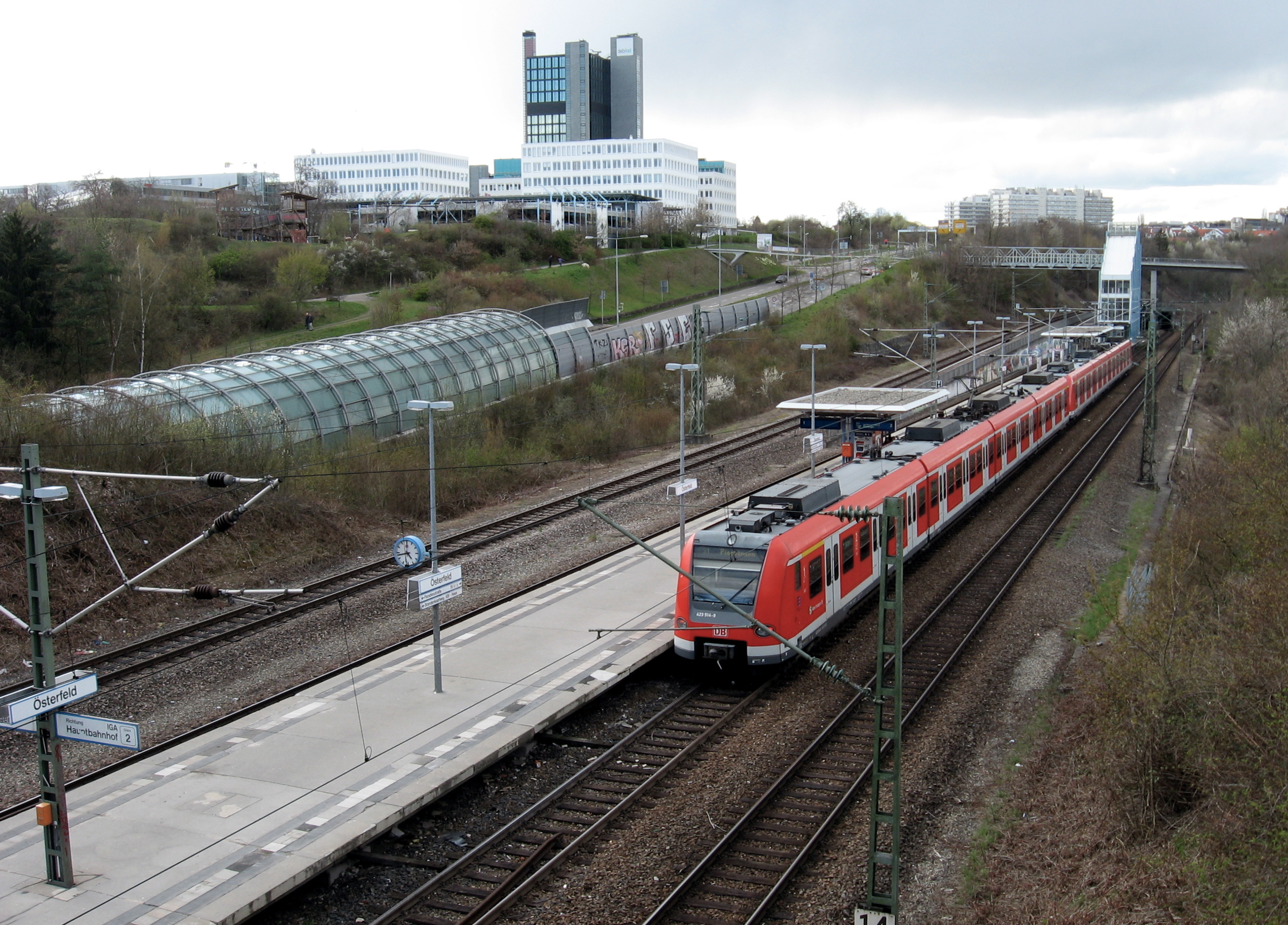 Stop Österfeld of Stuttgart S-Bahn in Stuttgart-Vaihingen, see also Stuttgart-Vaihingen station